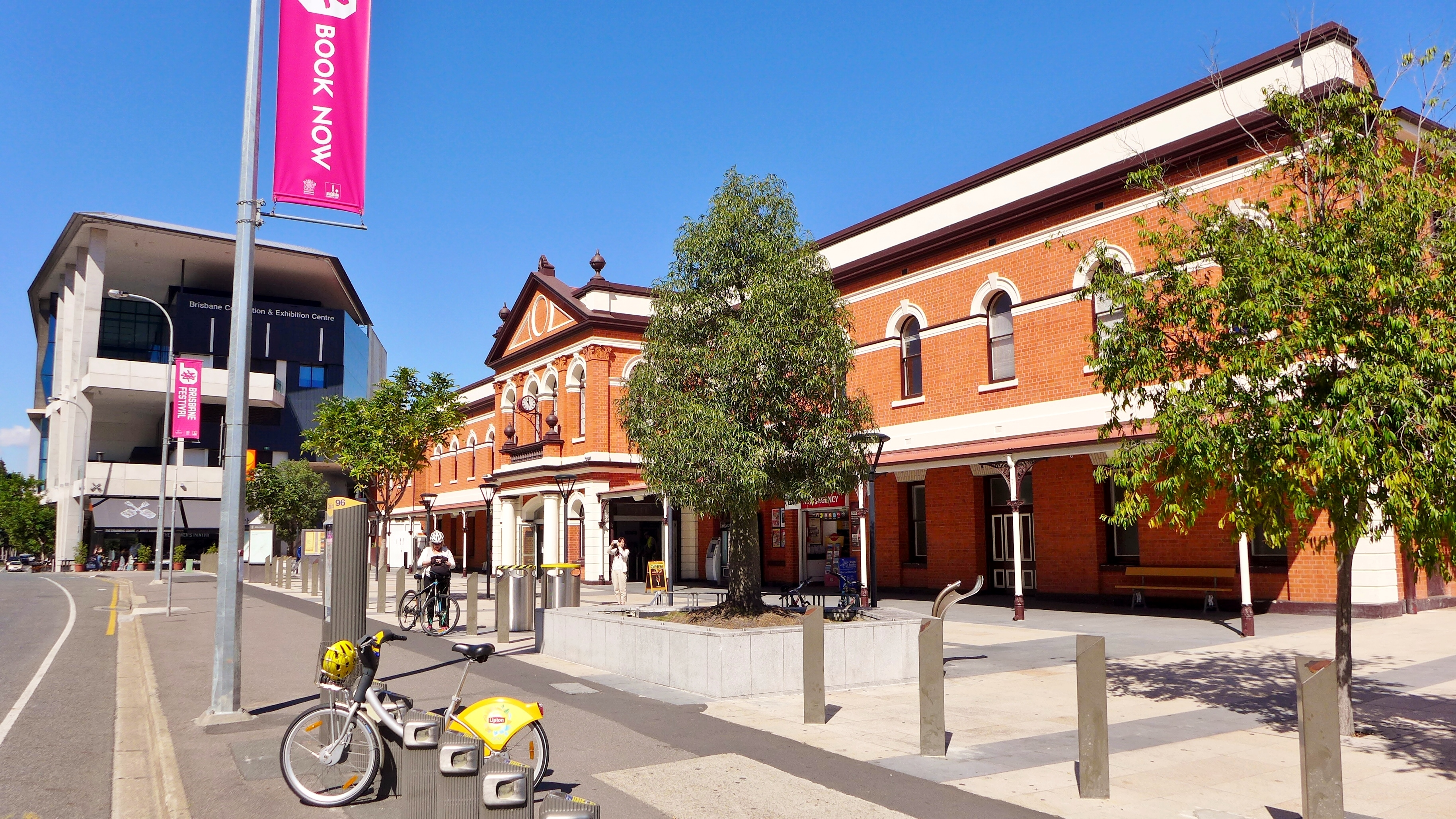 View of the station building at South Brisbane railway station